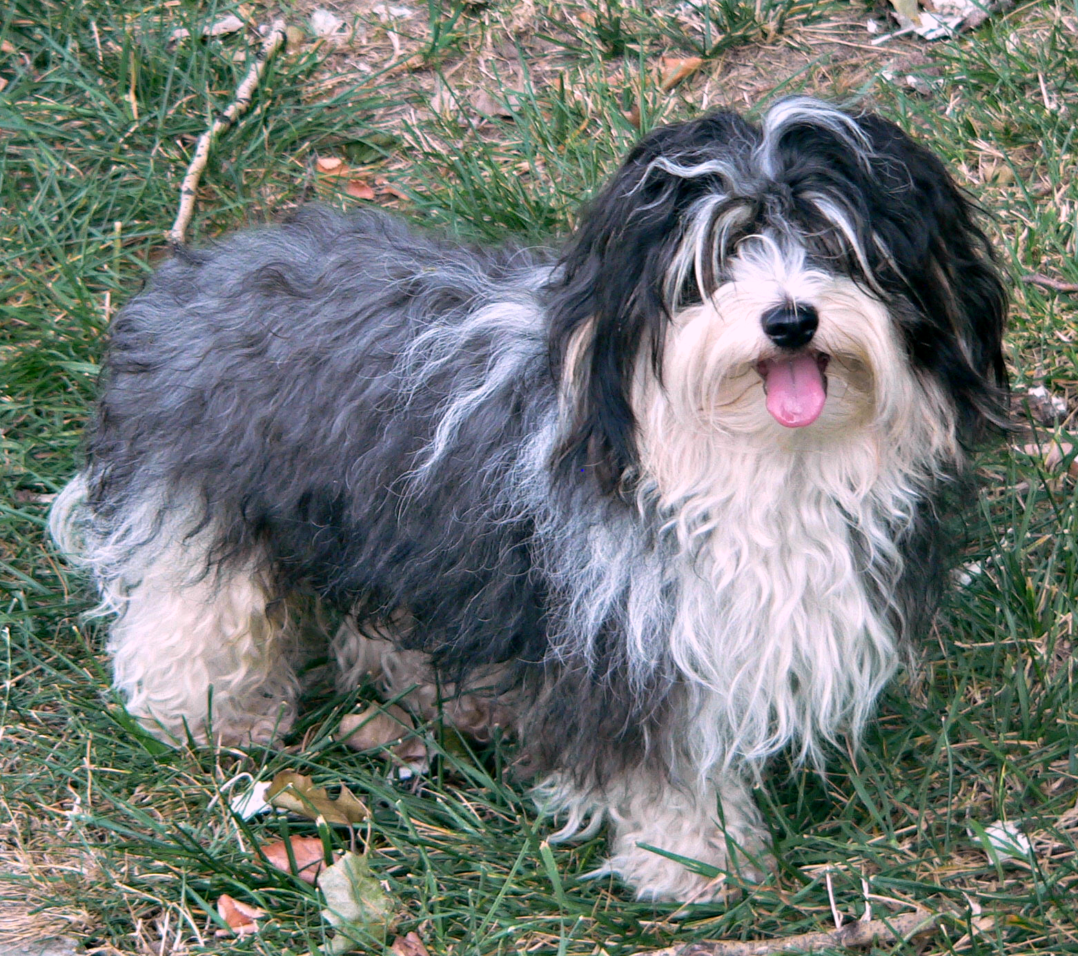 Male bichon havanese, named Yoyo